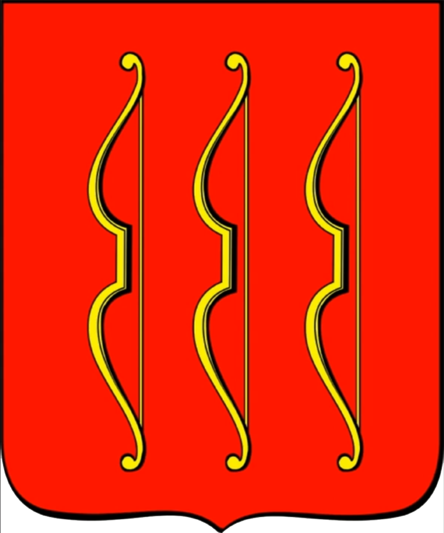 Velikie Luki (Pskov oblast), coat of arms